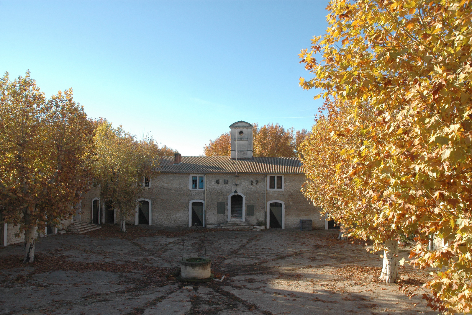 Tarascon (13)Quartier Kilmaine Cour